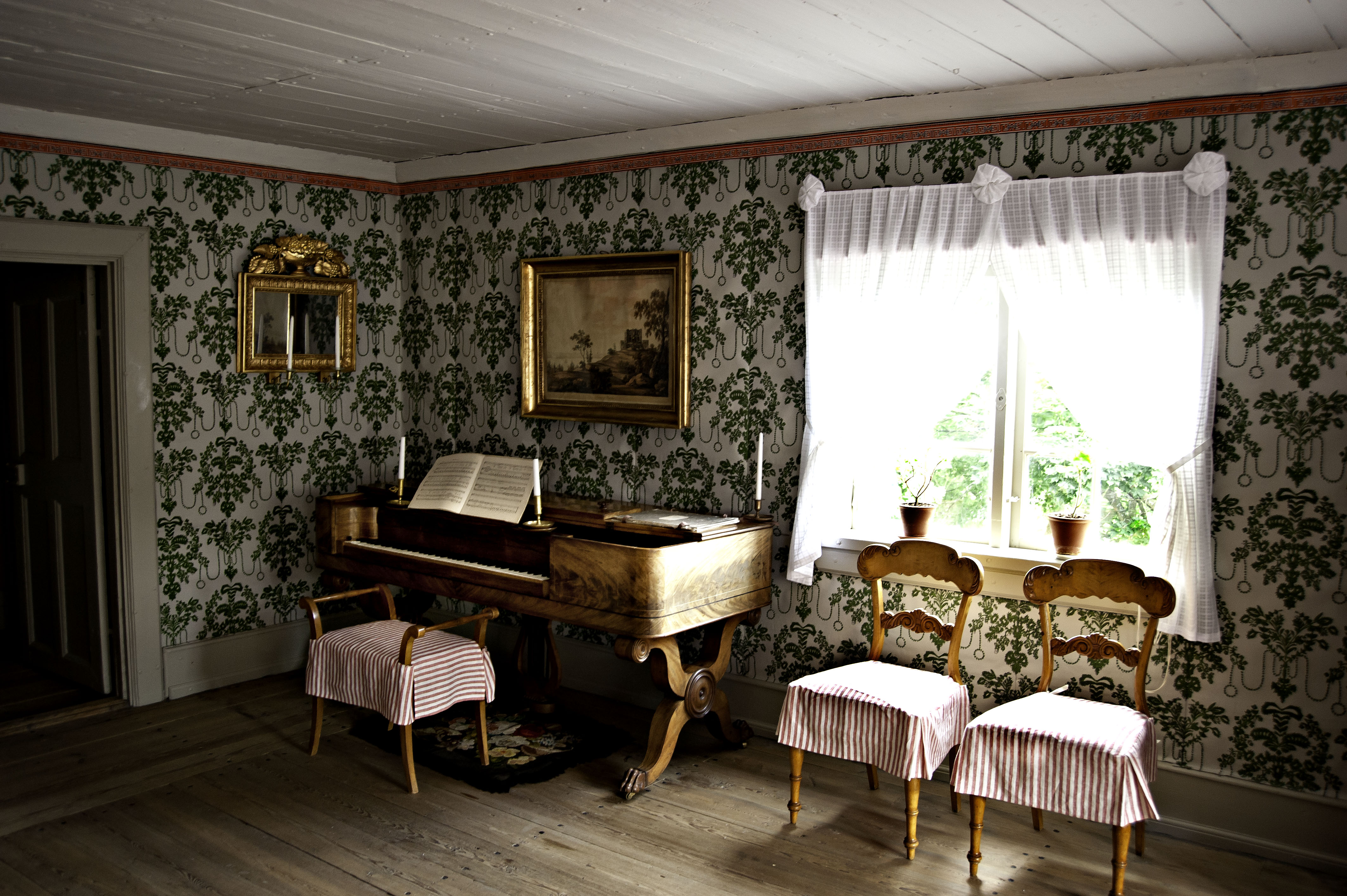 The Printer´s home, decorated in the latest style anno 1840.